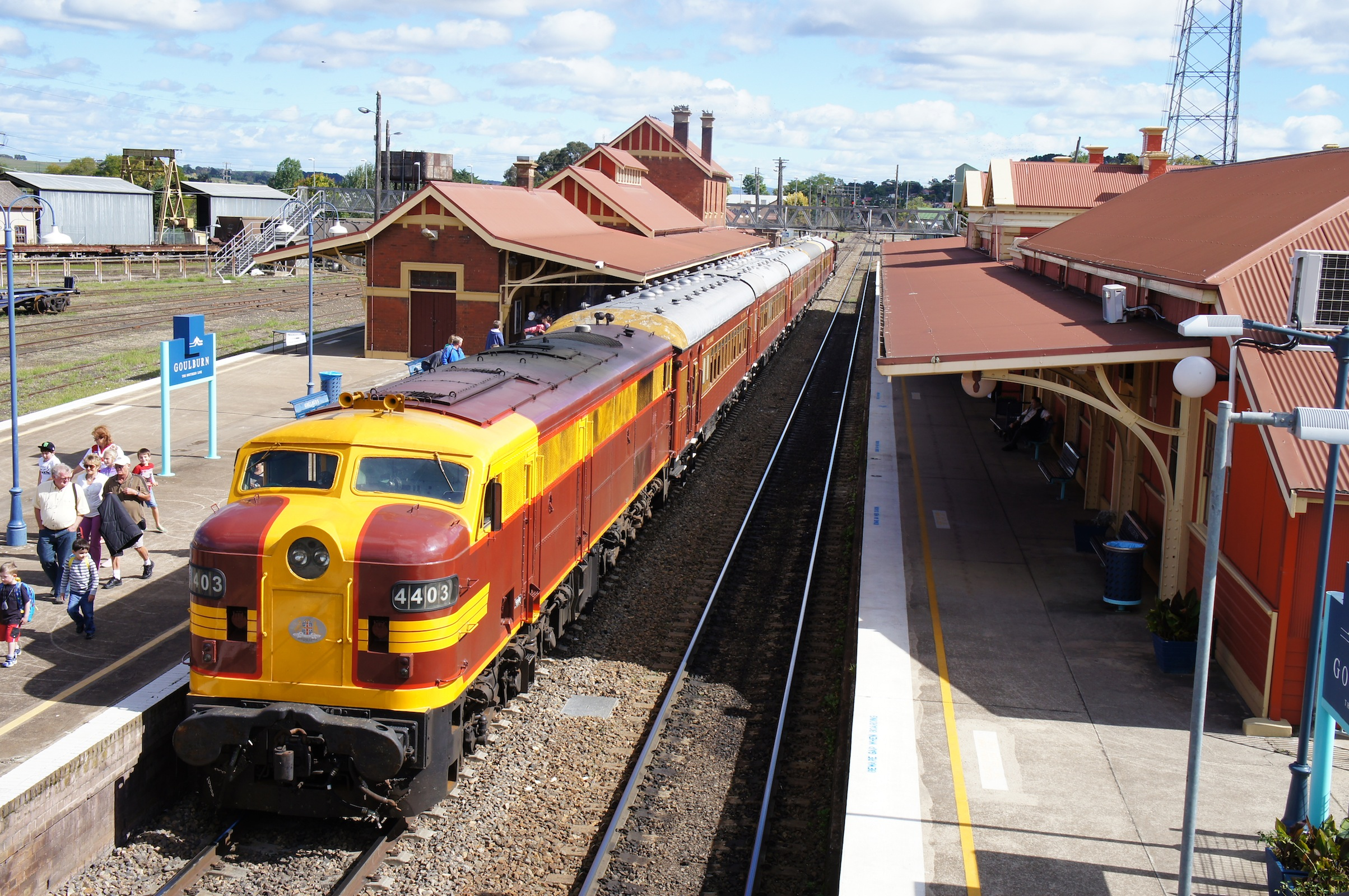 ARHS ACT's Goulburn Heritage Festival train at Goulburn station.